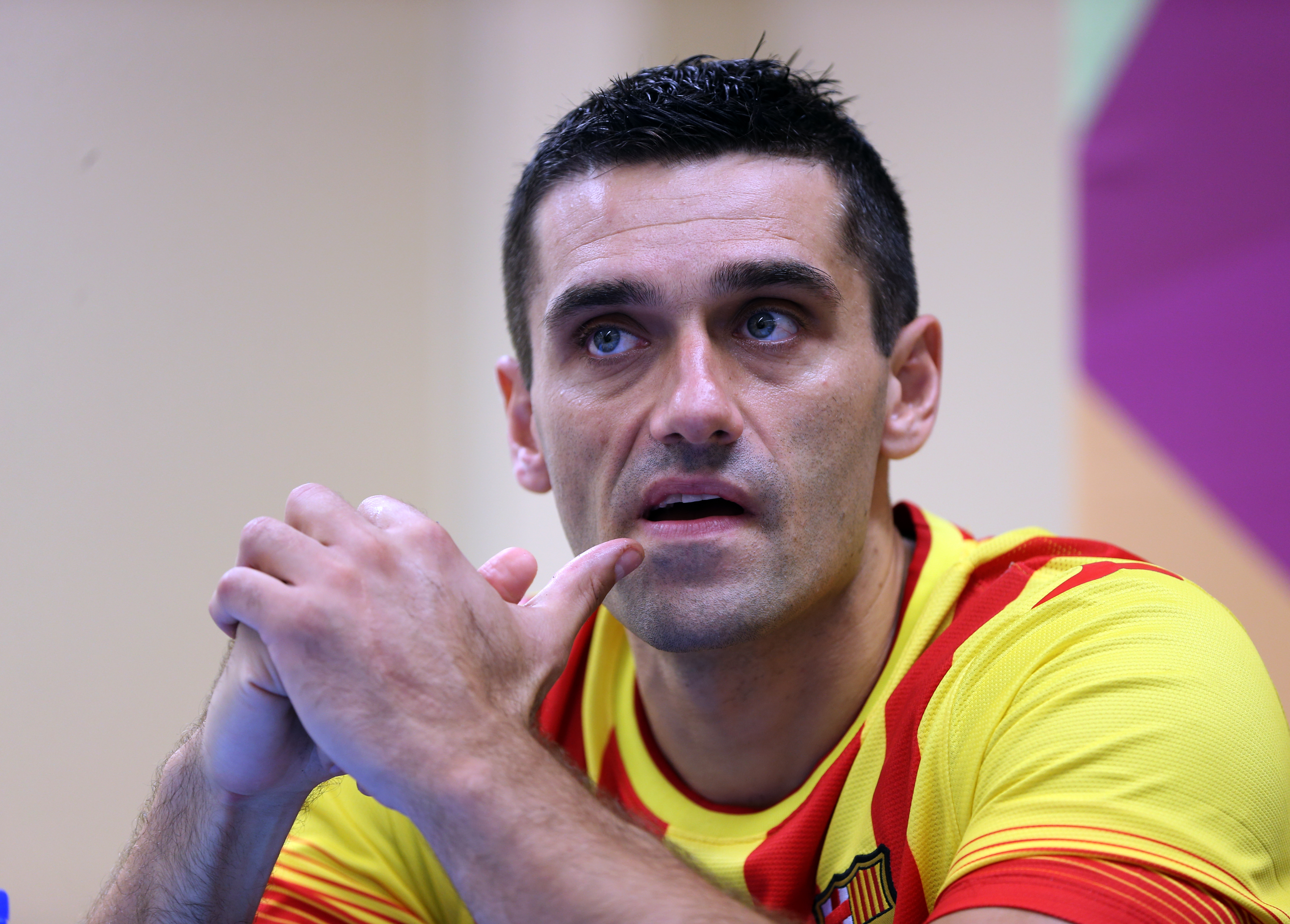 Barcelona Intersport's Macedonian professional Kiril Lazarov attends a Press conference during the 2013 IHF Super Globe tournament in Doha. Pic by Vinod Divakaran